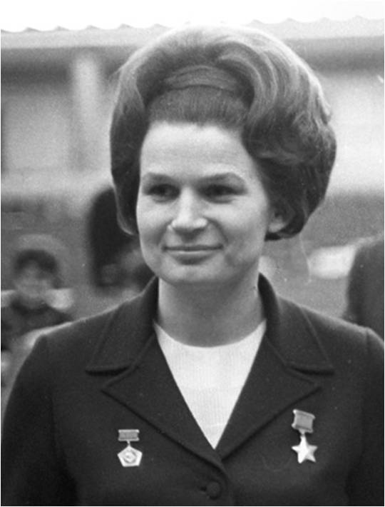 “The USSR pilot-cosmonaut Valentina Tereshkova”. The USSR pilot-cosmonaut Valentina Tereshkova with participants of international meeting. Сropped from "File:RIAN archive 612443 The USSR pilot-cosmonaut Valentina Tereshkova.jpg".